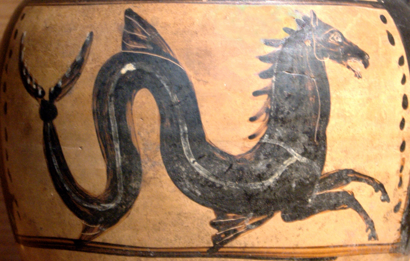 Hippocampe. Side B from a black-figure amphora, end of 6th century BC. Workshop: Capua.